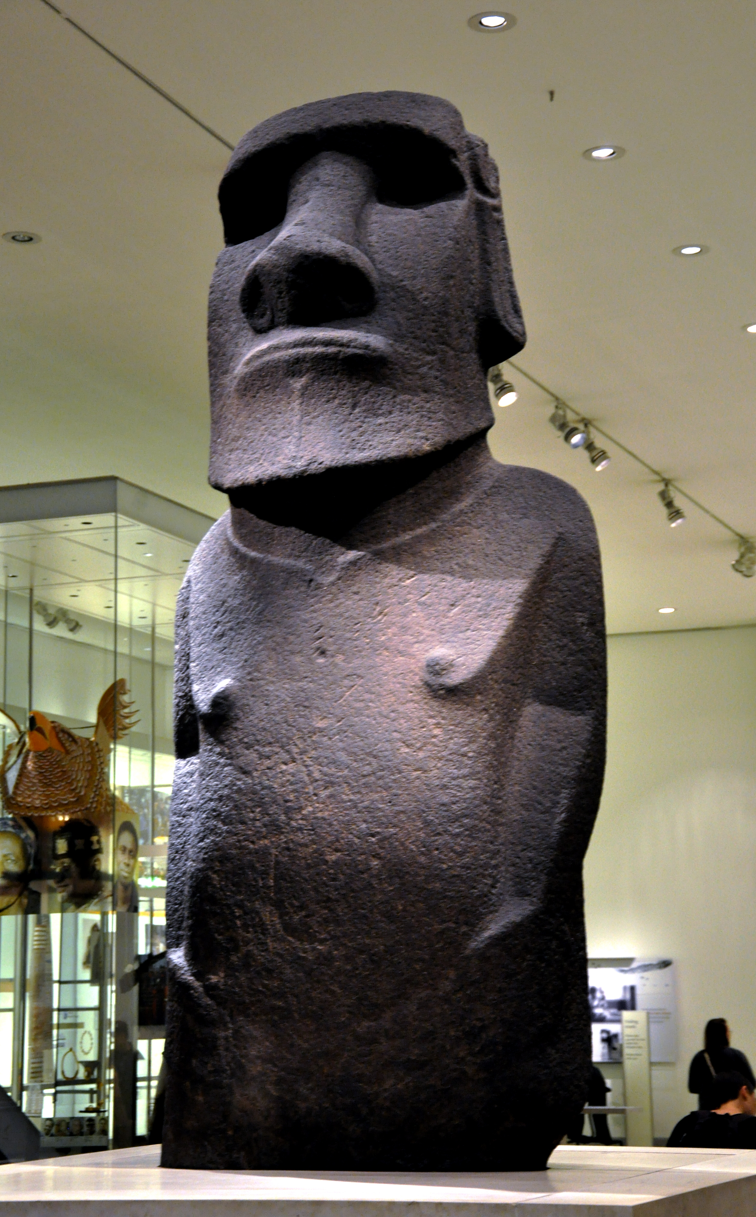 British Museum referenceOc1869,1005.1Detailed descriptionHoa Hakananai'a, Orongo, Easter Island, c. 1000–1200 ADLocationRoom 24